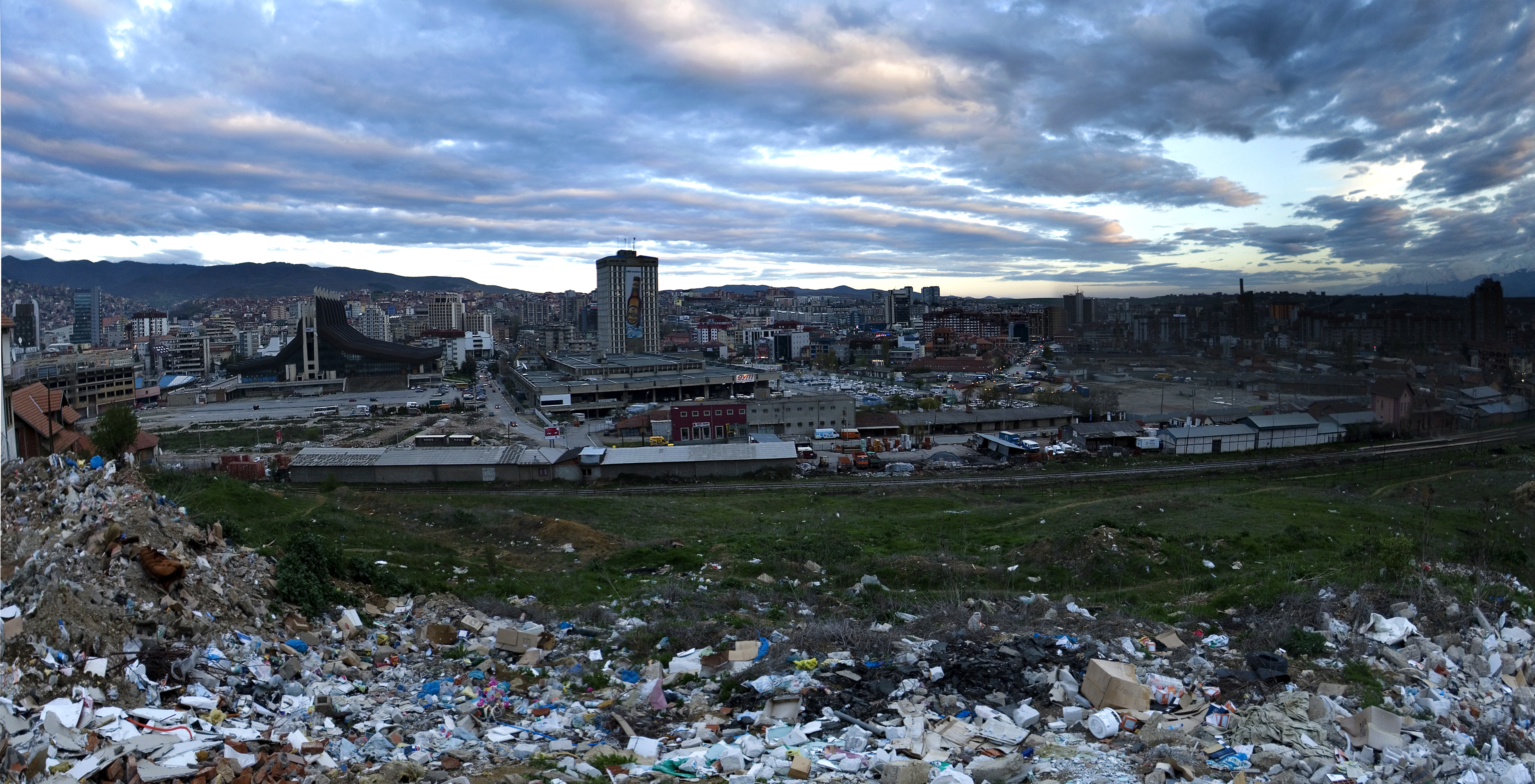 Pristina . Pristinah . Kosovo